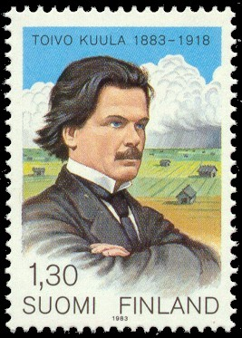 Postage stamp depicting the Finnish composer Toivo Kuula